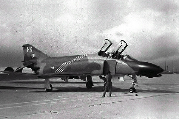 F-4D of the 480th Tactical Fighter Squadron / 37th Tactical Fighter Wing - Phu Cat Air Base South Vietnam.